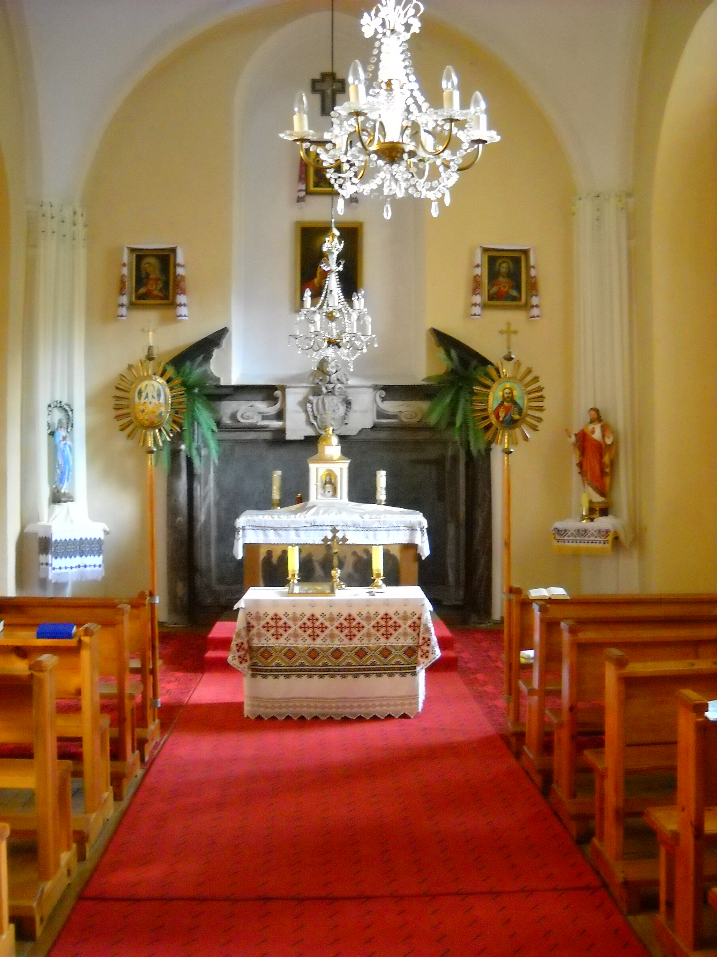 Vilnius, Holy Trinity Greek Catholic church. The only restored chapel, 2009.